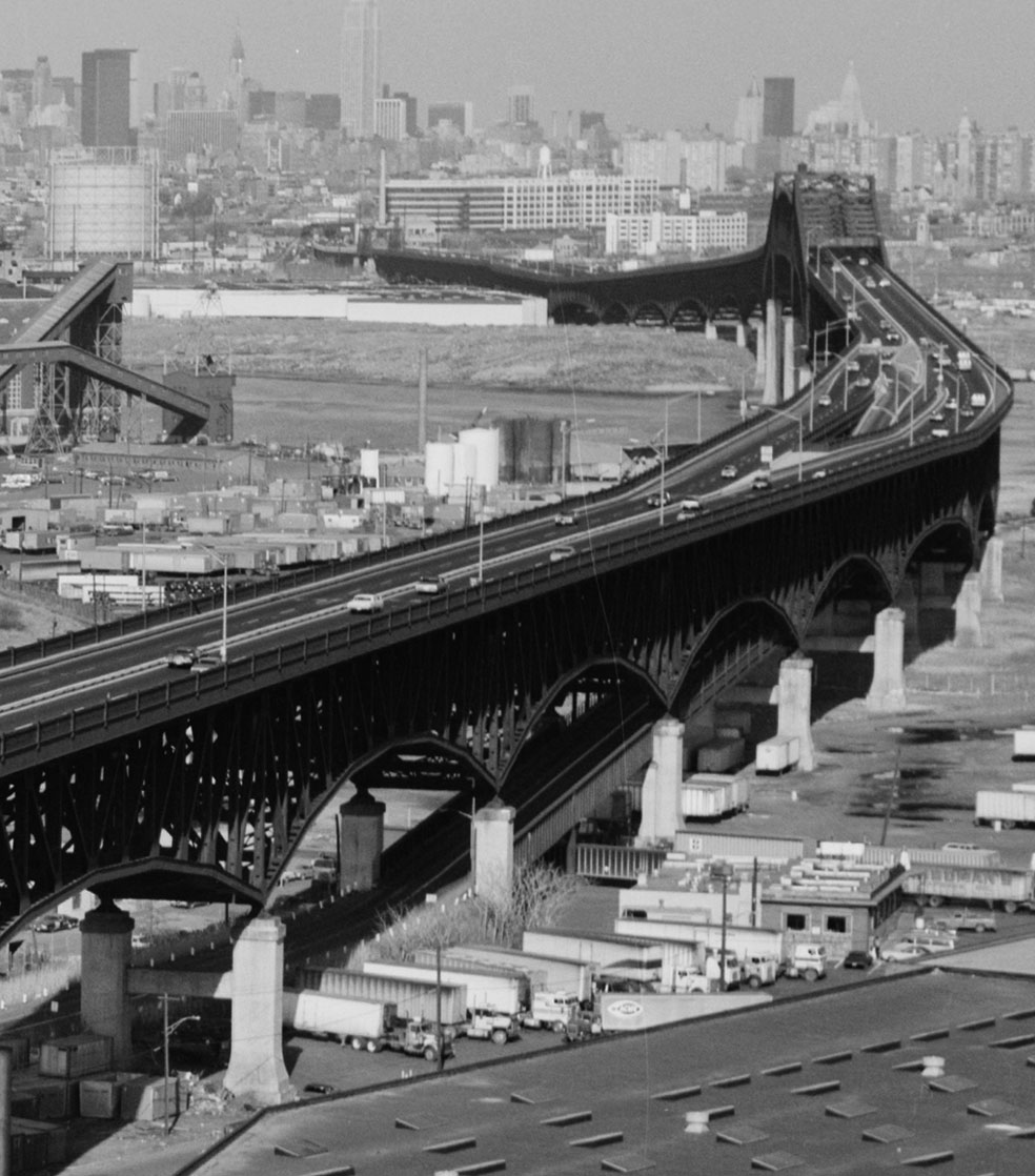 This shows the Pulaski Skyway ramp in Kearny.